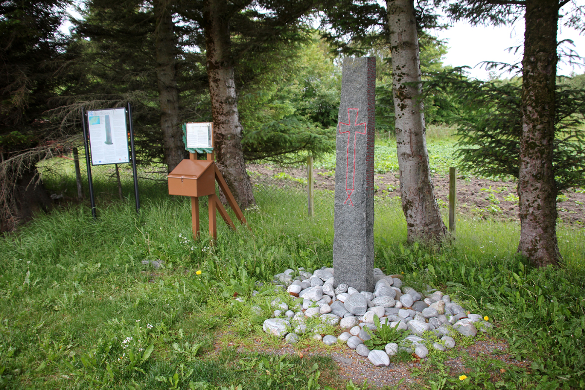 The Kuli-stone. One of the first signs of Christianity in Norway. Smøla, Norway.